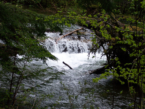 Greenwater River near Enumclaw